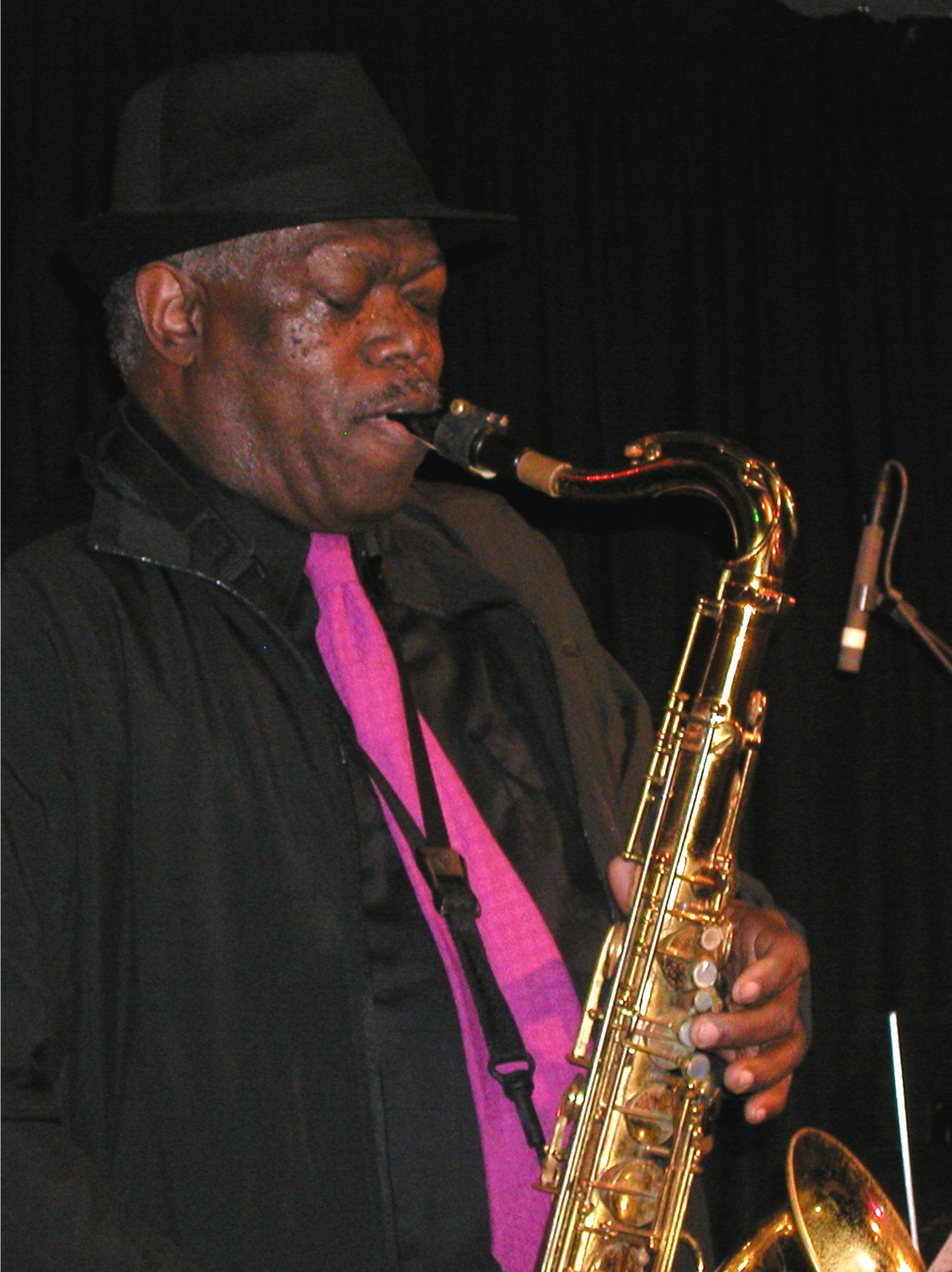 Joe McPhee in concert with "A Tribute to Albert Ayler" (Joe McPhee, Roy Campbell jr., William Parker & Warren Smith) one day after the election of Barack Obama for President of the US in Club W71, Weikersheim.